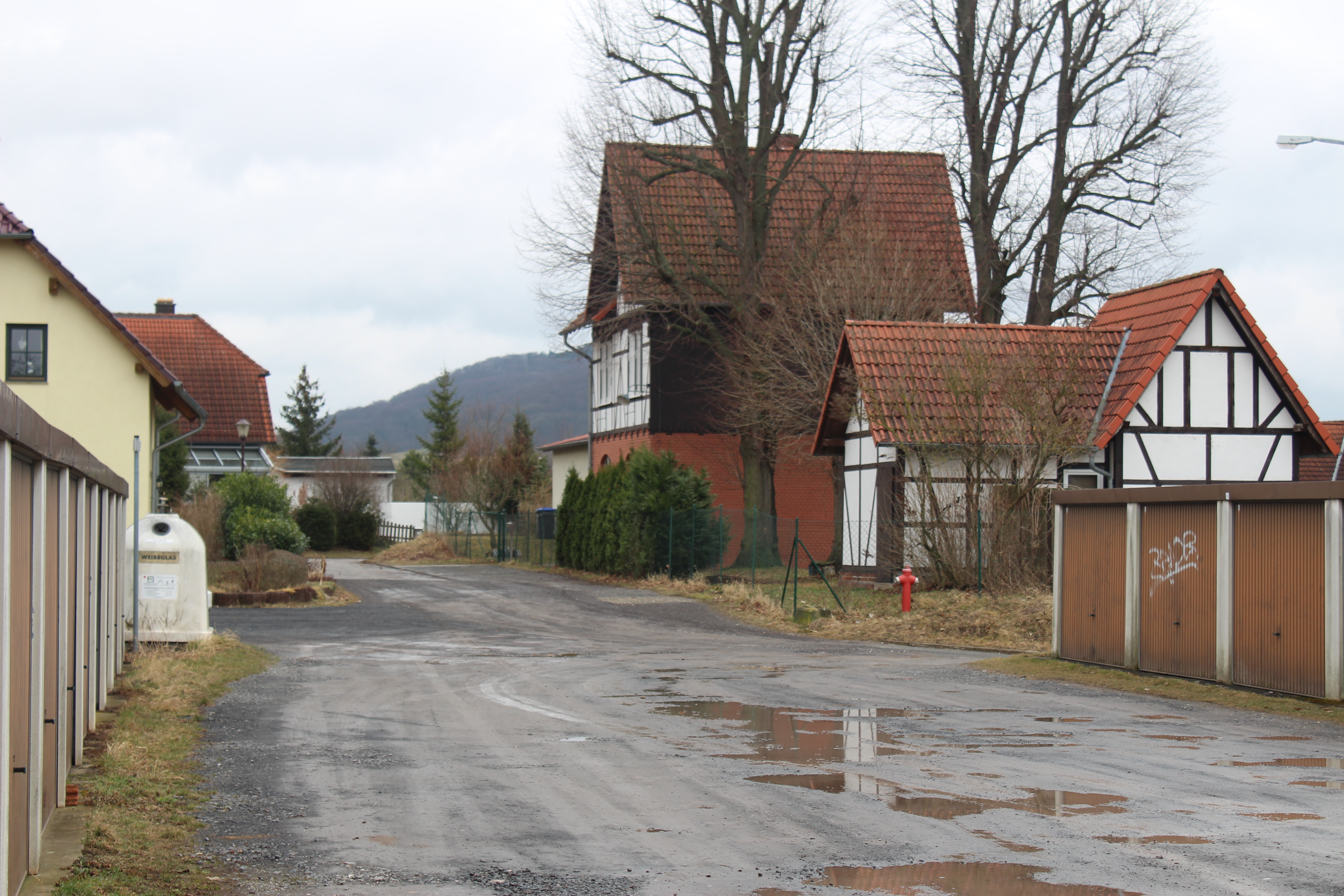 train station Beutnitz